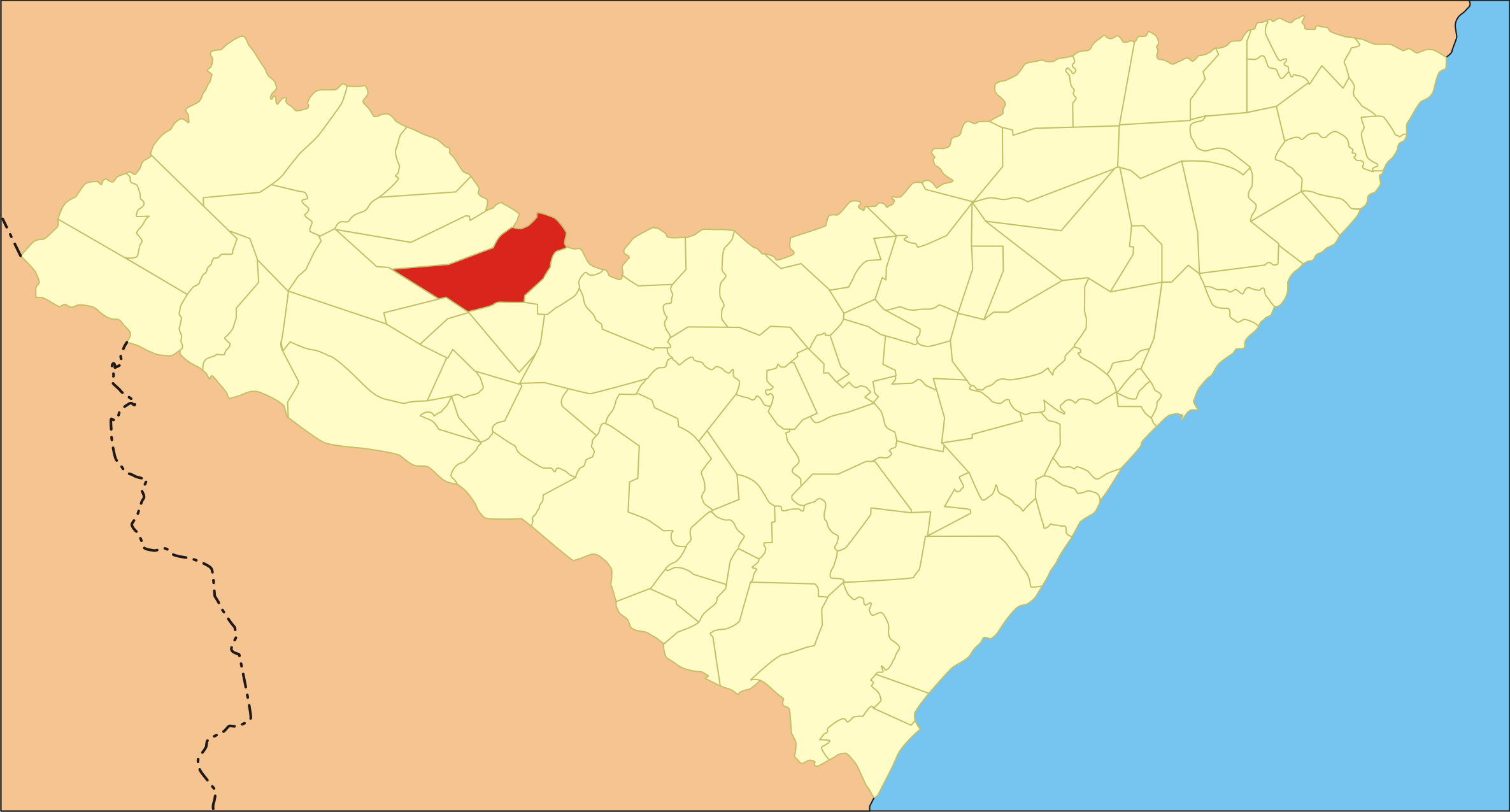 City localization in Alagoas